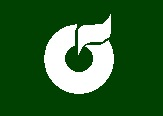 Flag of Shirakawa-town Gifu.JPG